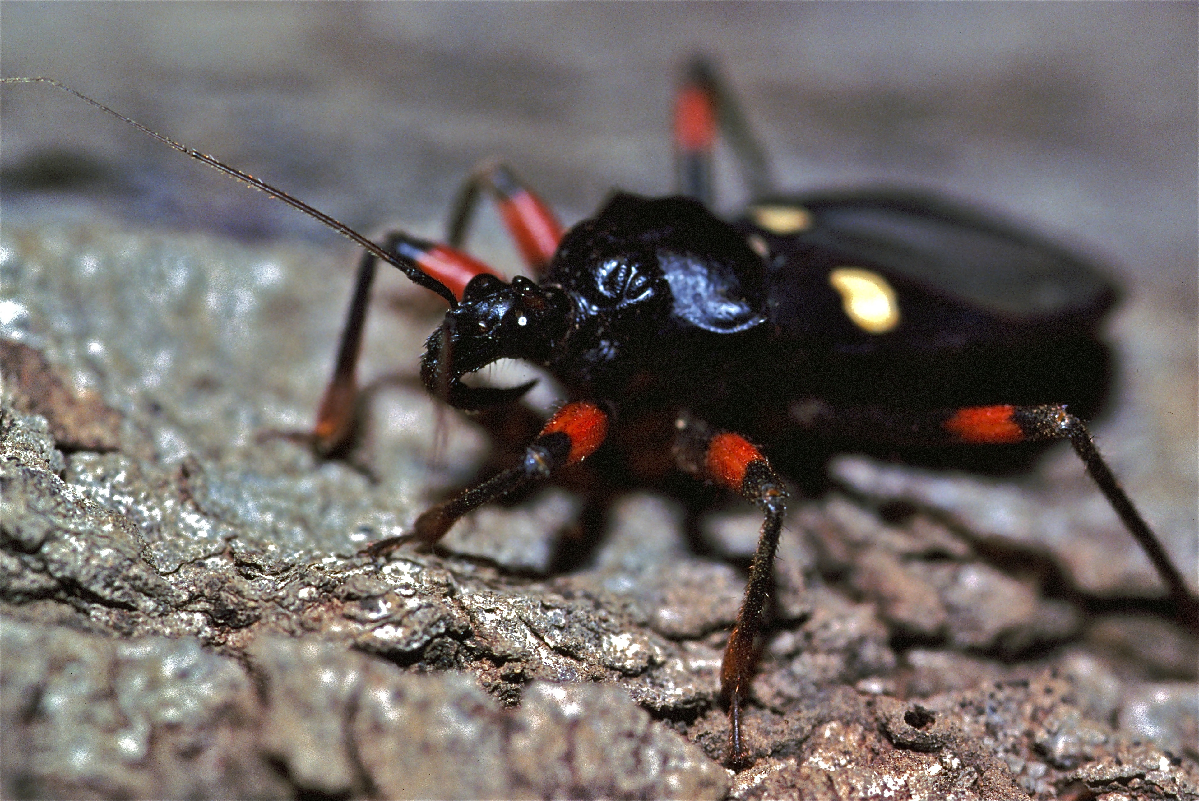 Samburu National Reserve, KENYA Scanned slide from 2004